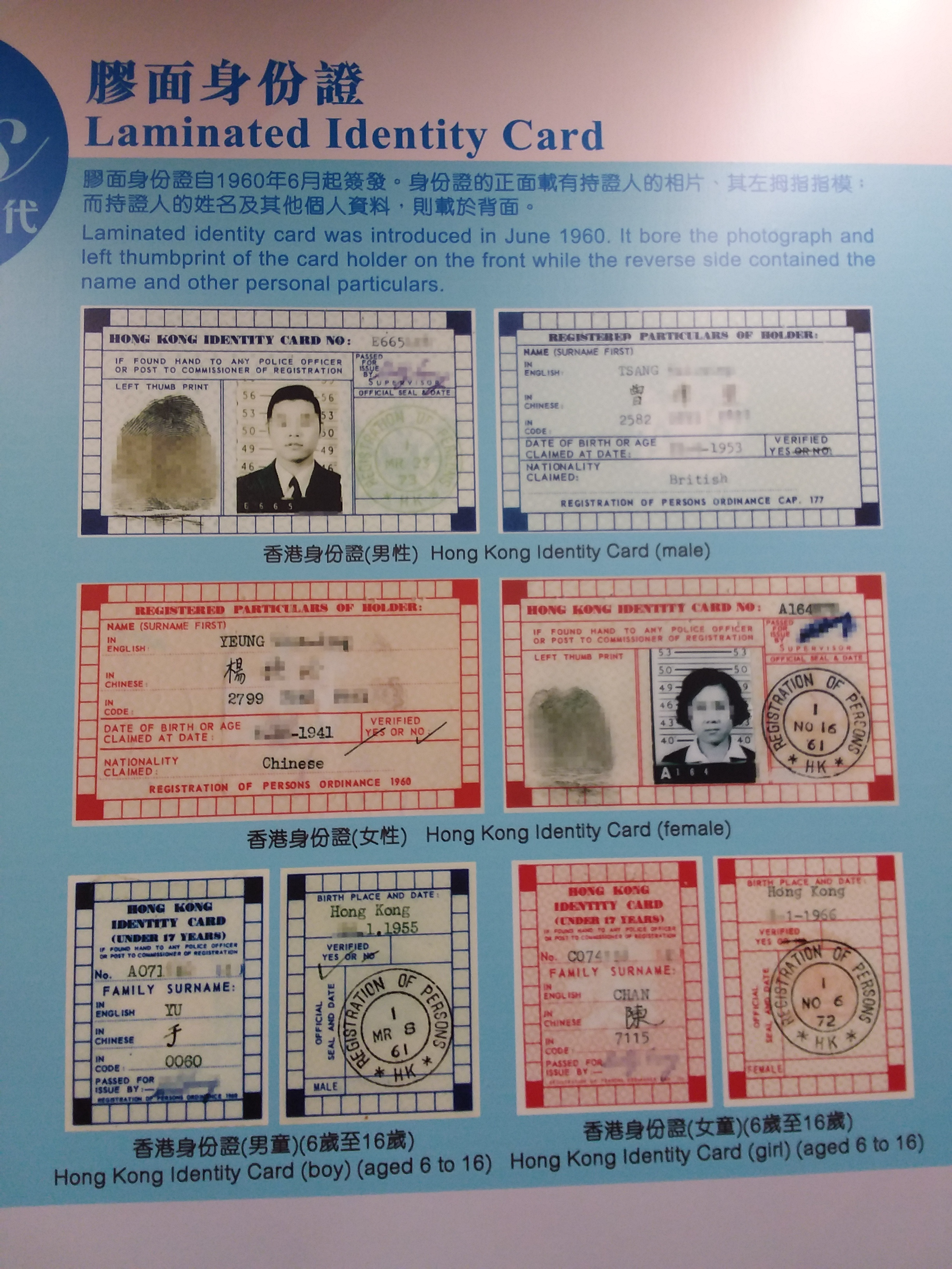 HK 灣仔北 Wan Chai North 港灣道 Harbour Road 瑞安中心 Shiu On Centre 港島智能身份證換領中心 Hong Kong Island Smart Identity Card Replacement Centre in September 2019